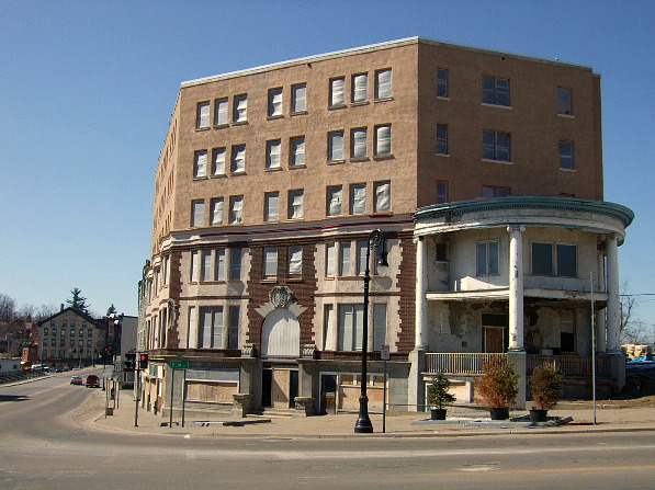 This is a picture of the 6 floor Flanagan hotel(7 pre-fire)